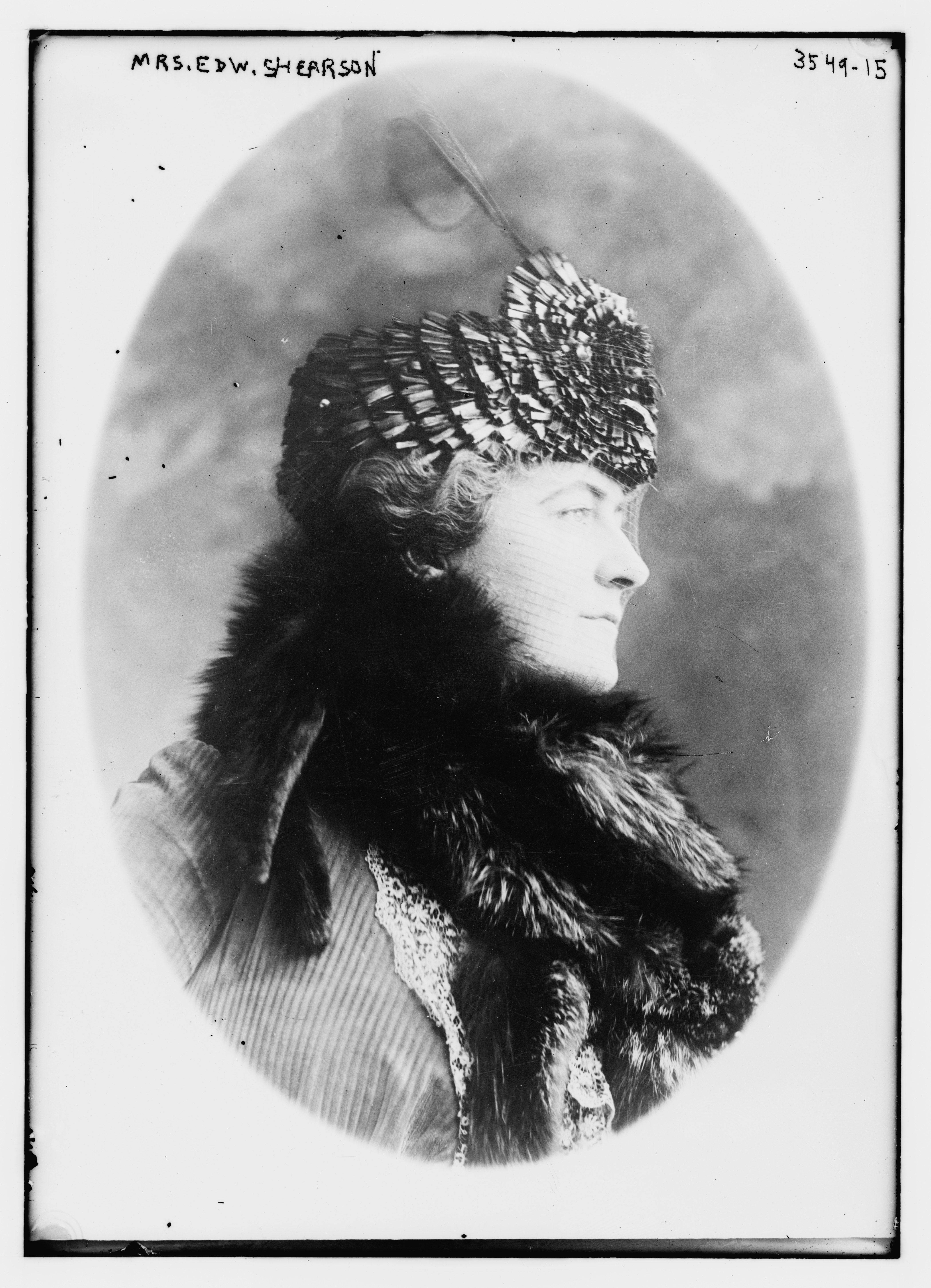 Title: Mrs. Edw. Shearson Abstract/medium: 1 negative : glass ; 5 x 7 in. or smaller.